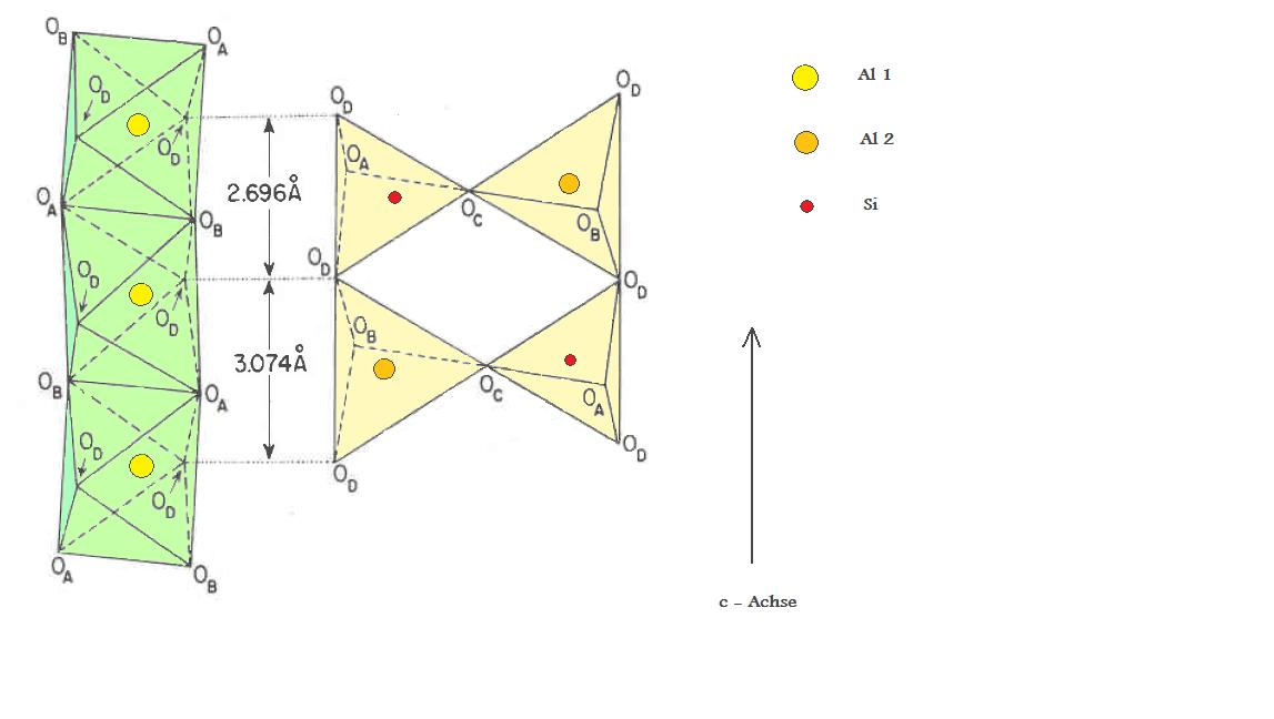 Section of sillimanite structure parallel to the c-axis